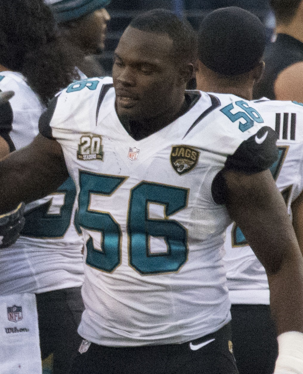 Jaguars at Ravens 12/14/14